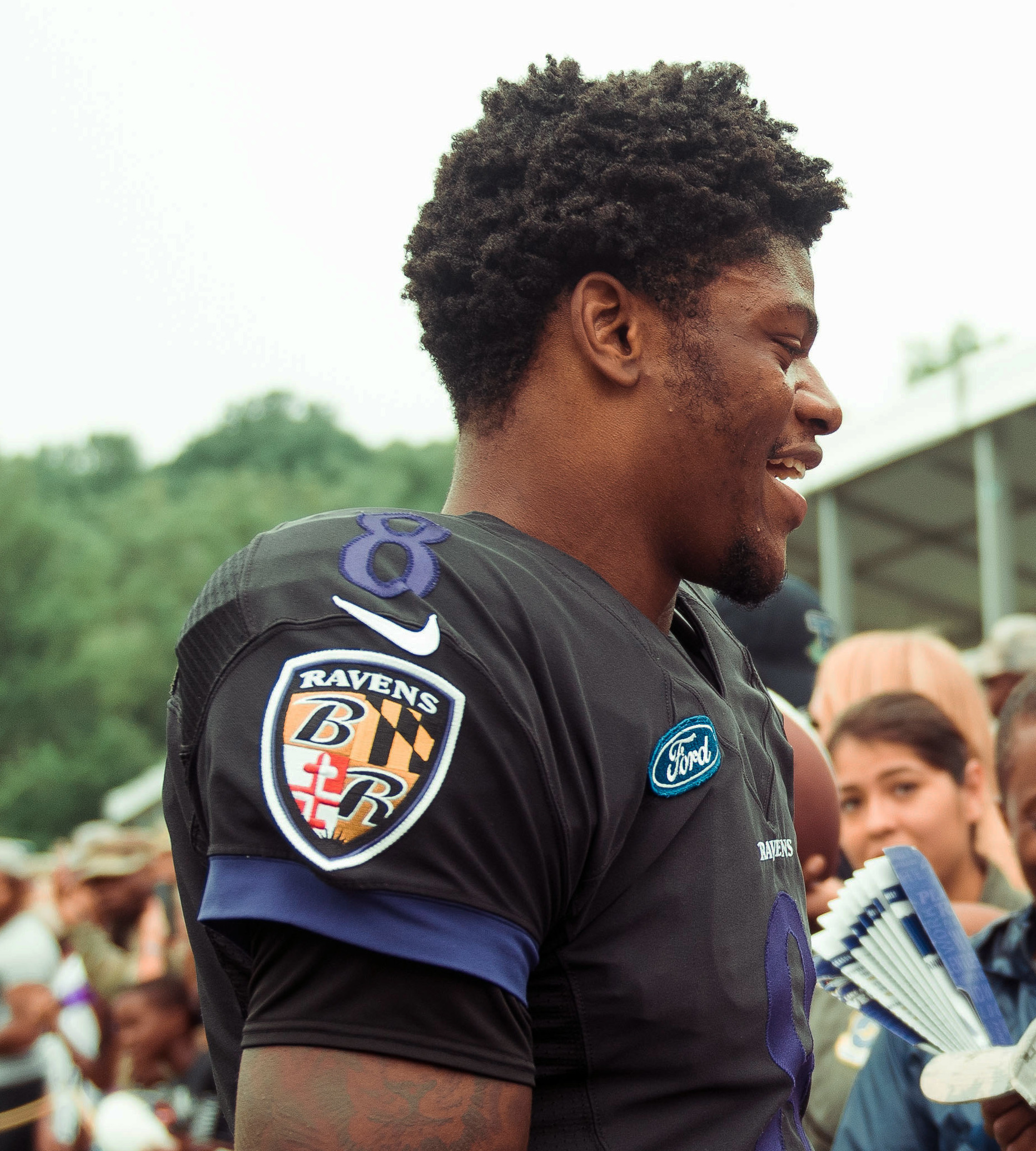 Lamar Jackson, Baltimore Ravens quarterback, interacts with service members after practice at Ravens Training Camp Facility in Owings Mills, Md., July 30, 2018. More than 1,000 service members from throughout the National Capital Region filled the stands to watch as players and coaches ran a variety of drills and scrimmages.